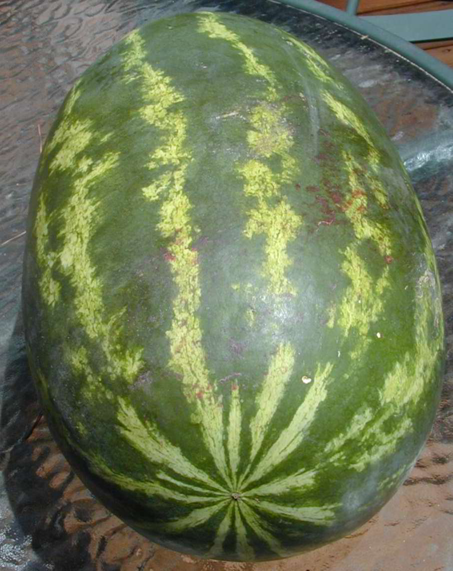 Public domain photo by James E. Scarborough August 28, 2004 of a vampire watermelon. I bought the watermelon at the Raleigh, USA Farmers' market on August 24, 2004 at about 17:20 (GMT-4) and stored it until August 28, 2004 12:00 between 74 and 80 degrees Faharenheit (23-27 C).